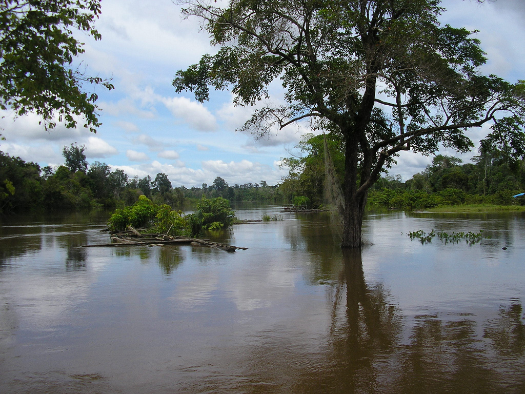 Riverbank area of Kapuas River